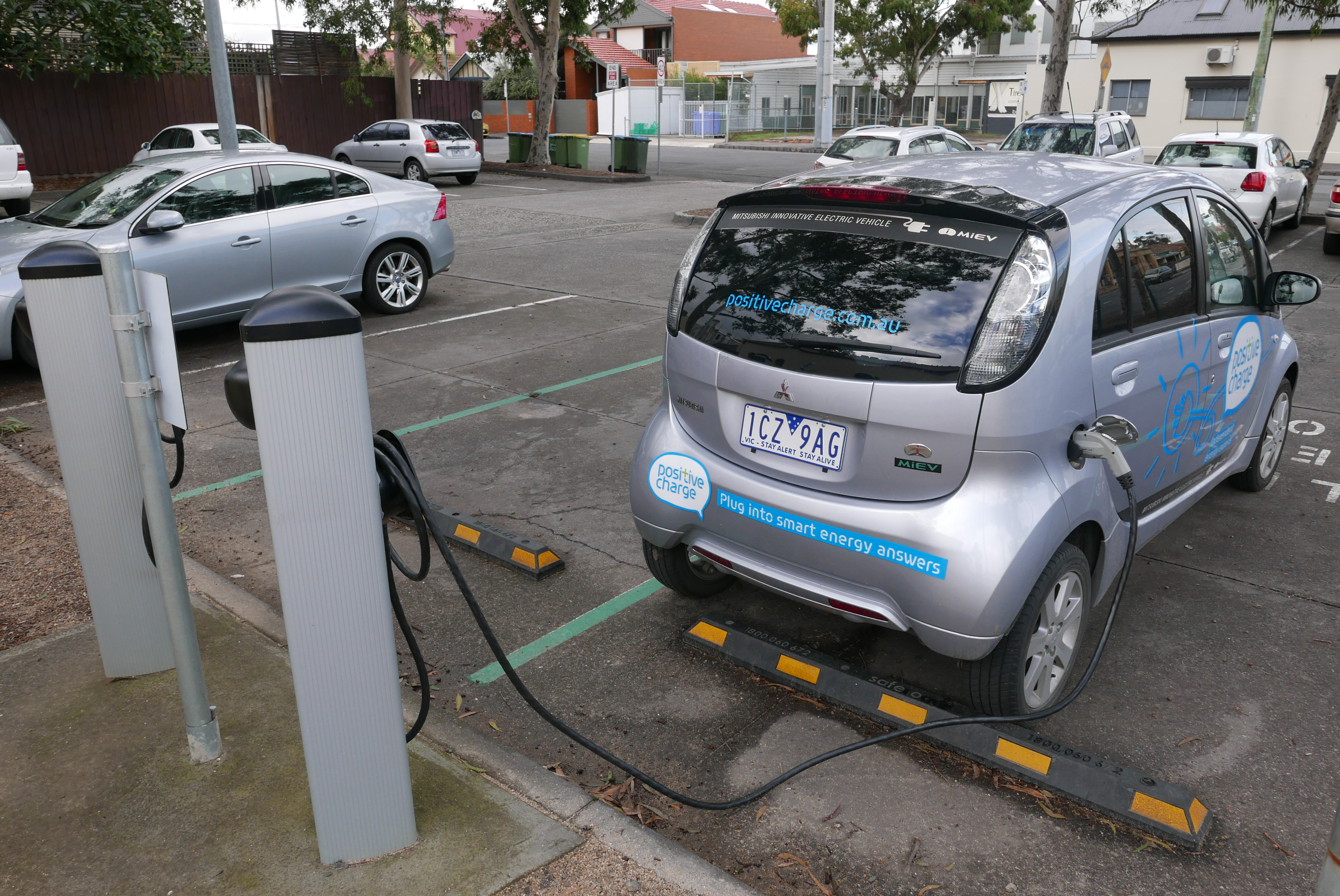 2010 Mitsubishi i-MiEV (GA MY10) hatchback, Positive Charge, using ChargePoint station. Photographed at 1 David Street, Brunswick, Victoria, Australia. Vehicle registration enquiry resultsJurisdictionVictoriaRegistration1CZ9AGChassis codeJMFLDHA3WAU003607Engine codeY4F1MF03546Compliance date2010-10Year of manufacture2010